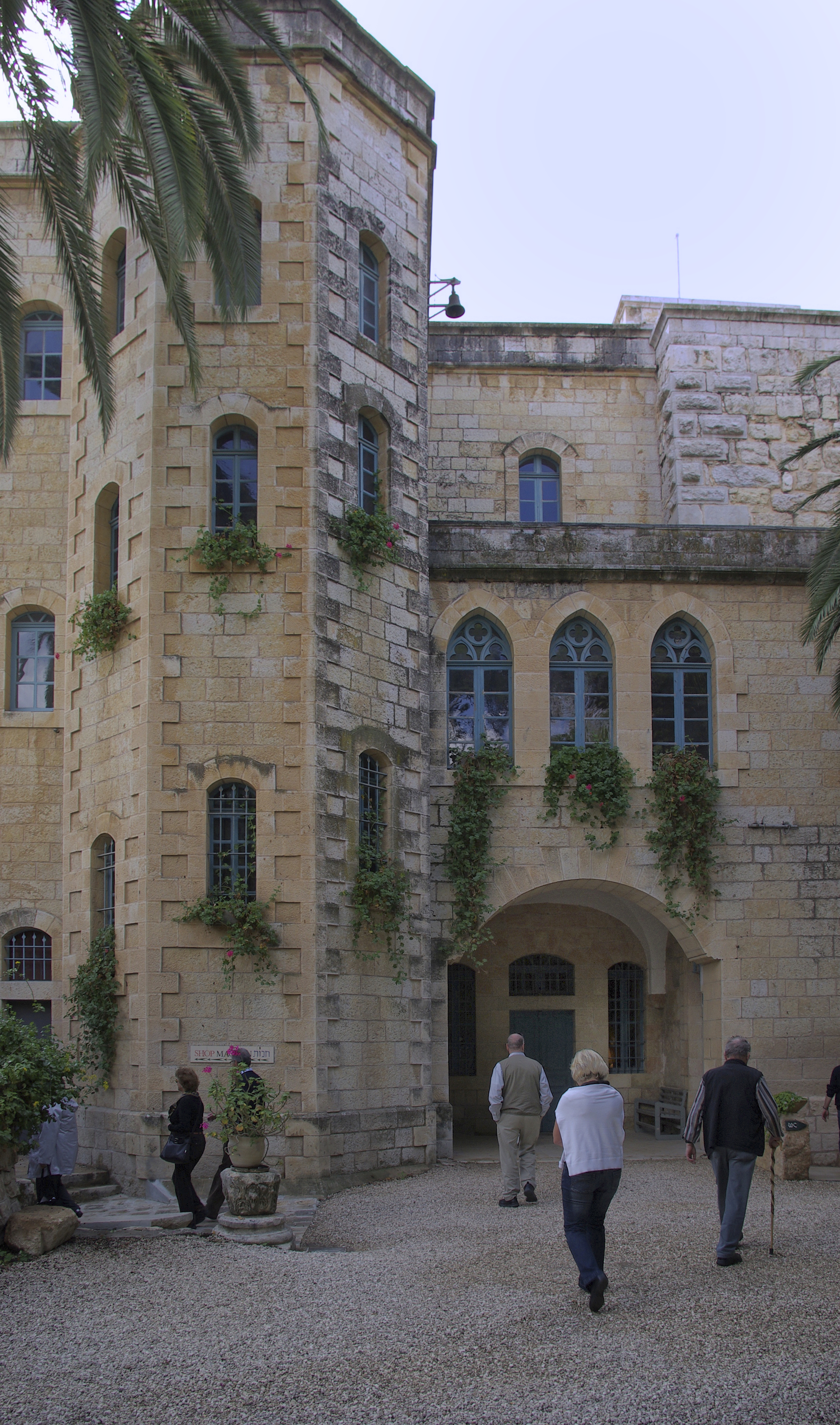 Israel, Abu Ghosh